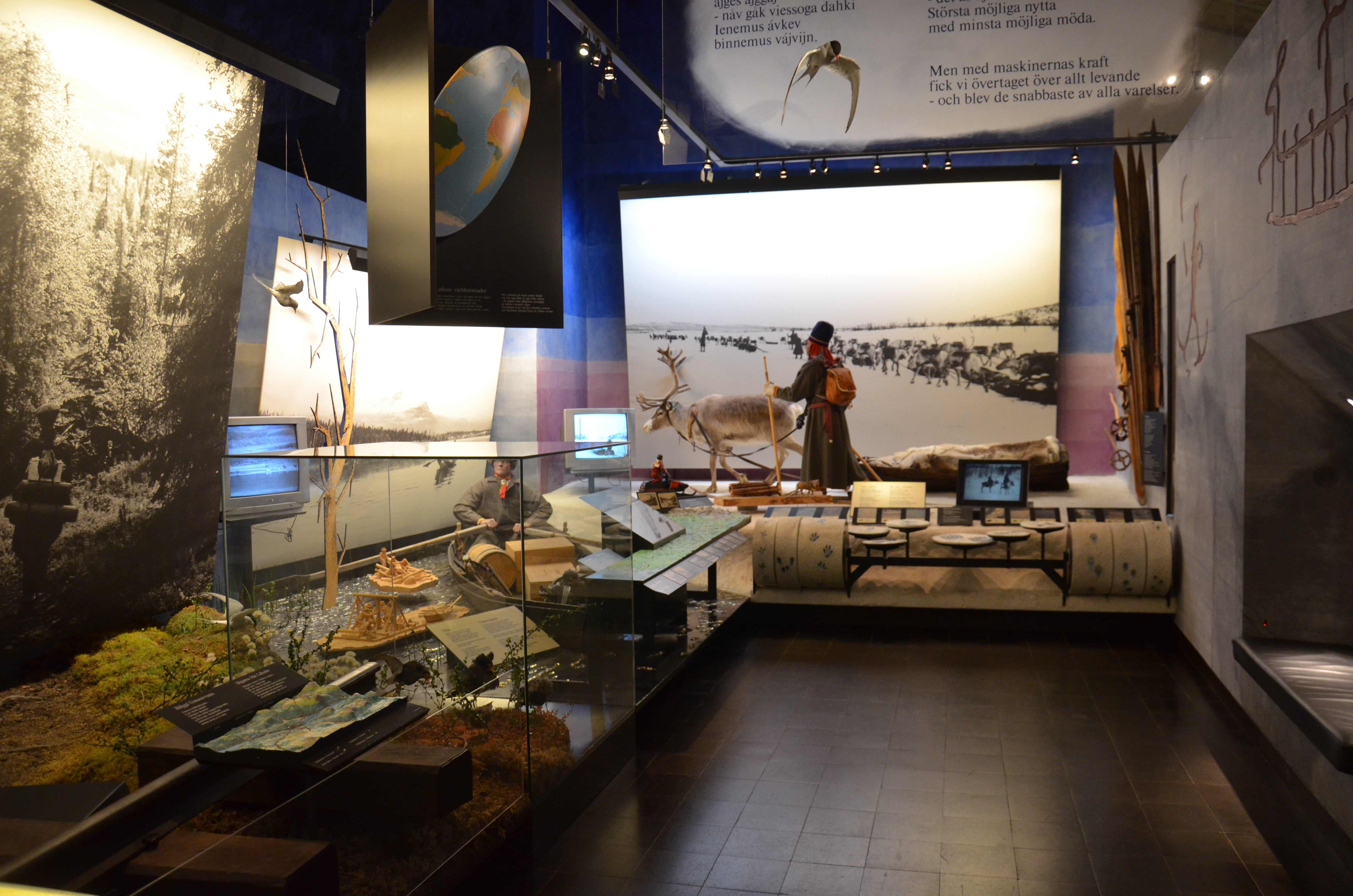 Ajtte, Svenskt fjäll- och samemuseum, Jokkmokk, utställningshall